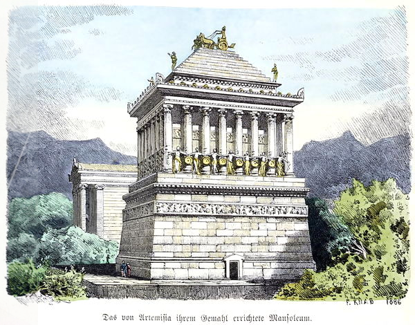 The Mausoleum at Halicarnassus, painting by Ferdinand Knab.